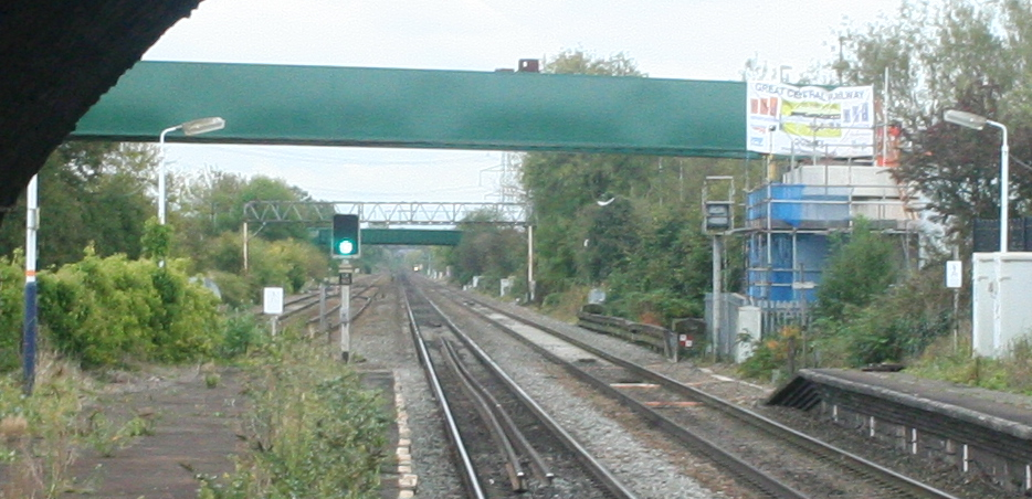 New (2017) bridge to carry the Great Central Railway over the Midland Main Line and forming the first new part of the Loughborough Gap single-line railway connection. Picture taken from Loughborough railway station looking southwards under the existing A60/Nottingham Road bridge over the station.